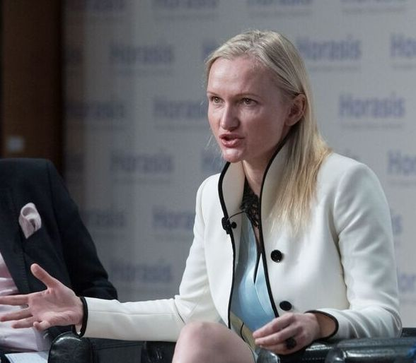 2018 Horasis Global Meeting, Cascais, Portugal, 5-8 May